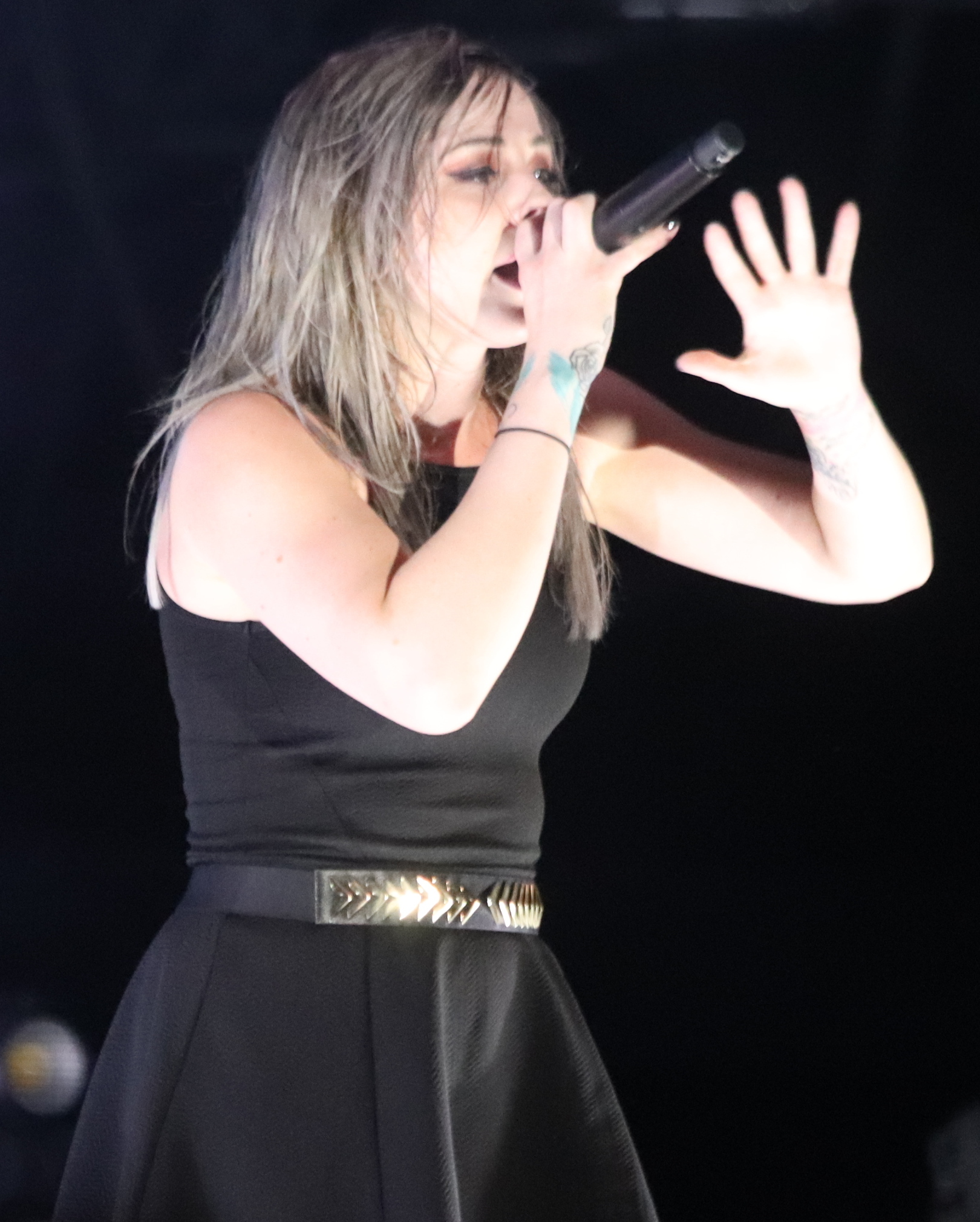 Jen Ledger momentarily stepped away from drumming to sing with her band Skillet at Lifest.